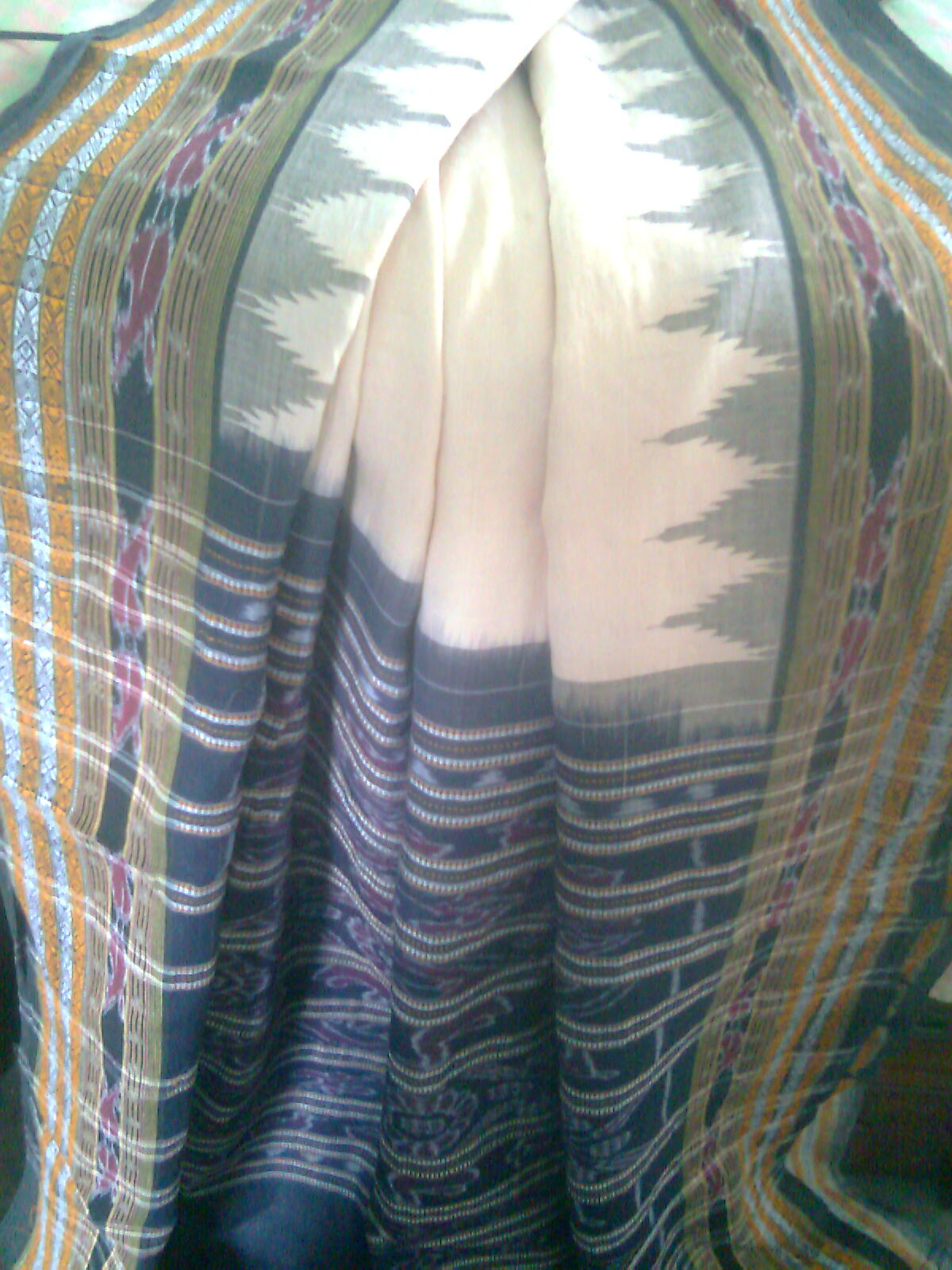 baandha saree from Odisha